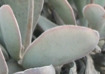 Crassula cotyledonis in the Robertson Karoo